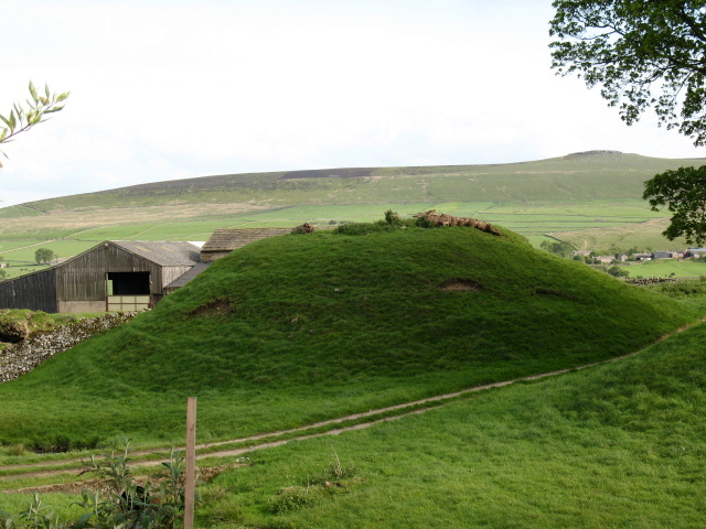 Motte at Carlton in Coverdale The motte stands at the back of the Foresters Arms Inn and is easily missed. Local guide books would suggest that it is 11th or 12th century and may have been built as an 'outlier' of the original [William's Hill] castle in Middleham.